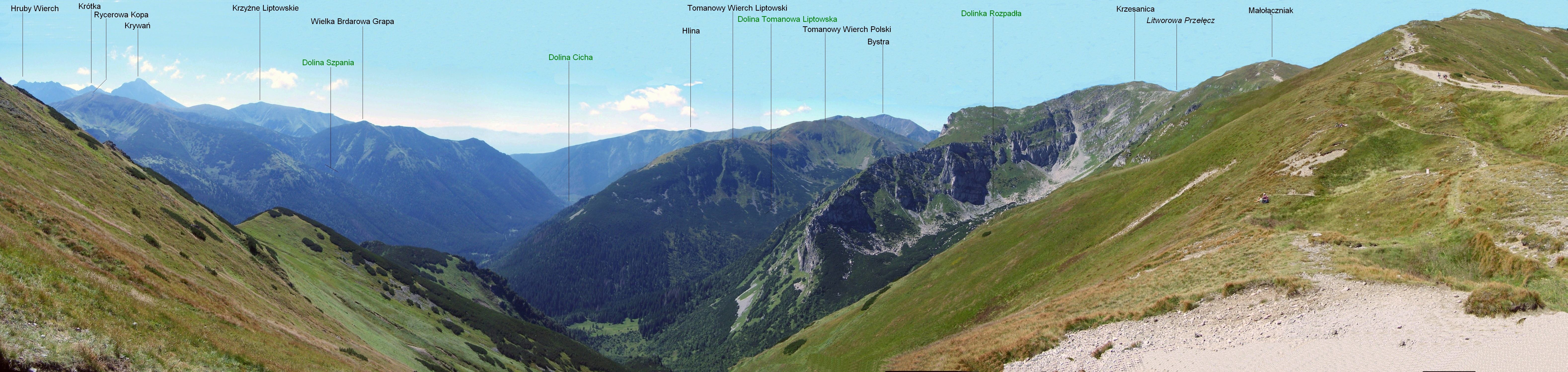 Panorama na południe z Przełęczy pod Kopą Kondracką